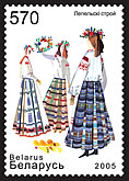 Stamp of Belarus